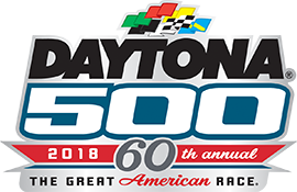 Daytona International Speedway's current, up-to-date logo for events and event advertising.